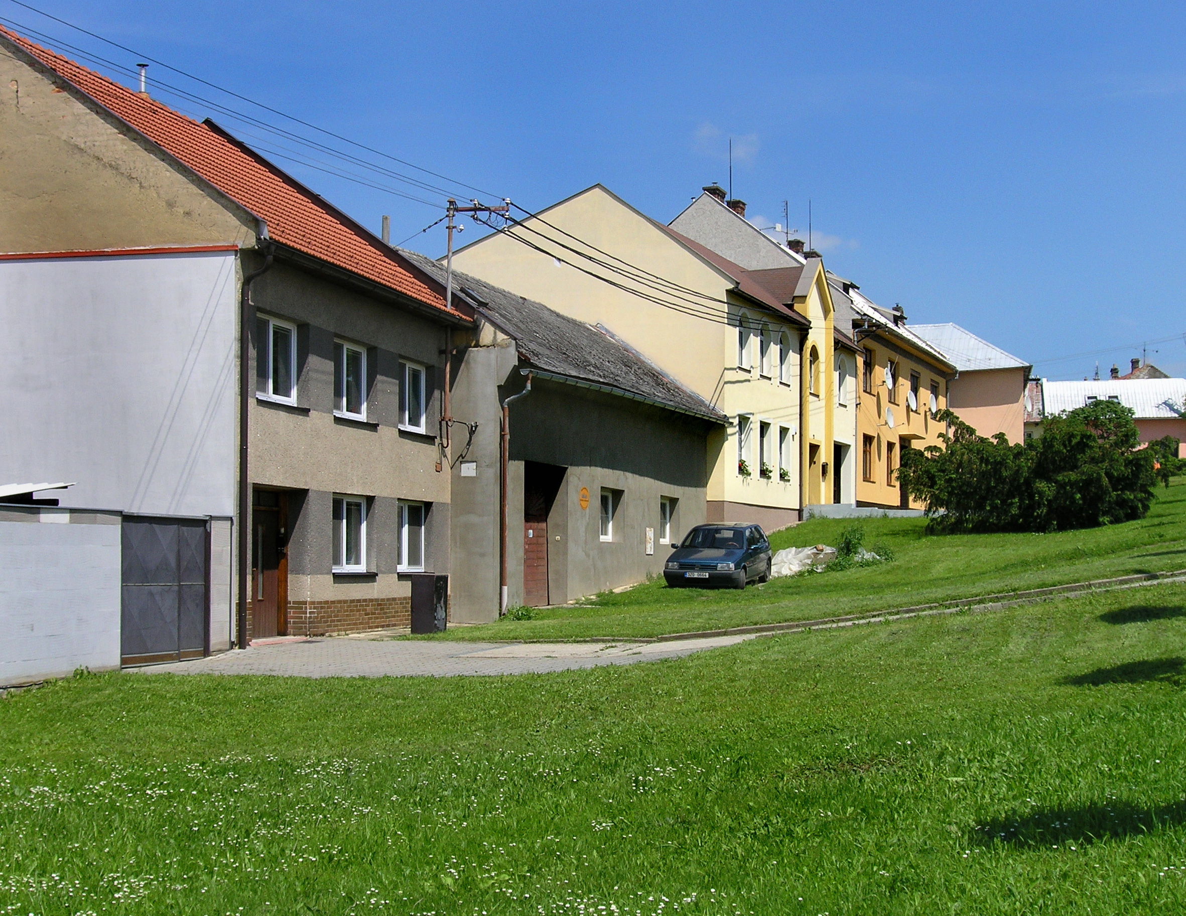 Náměstí square in Zdounky, Czech Republic